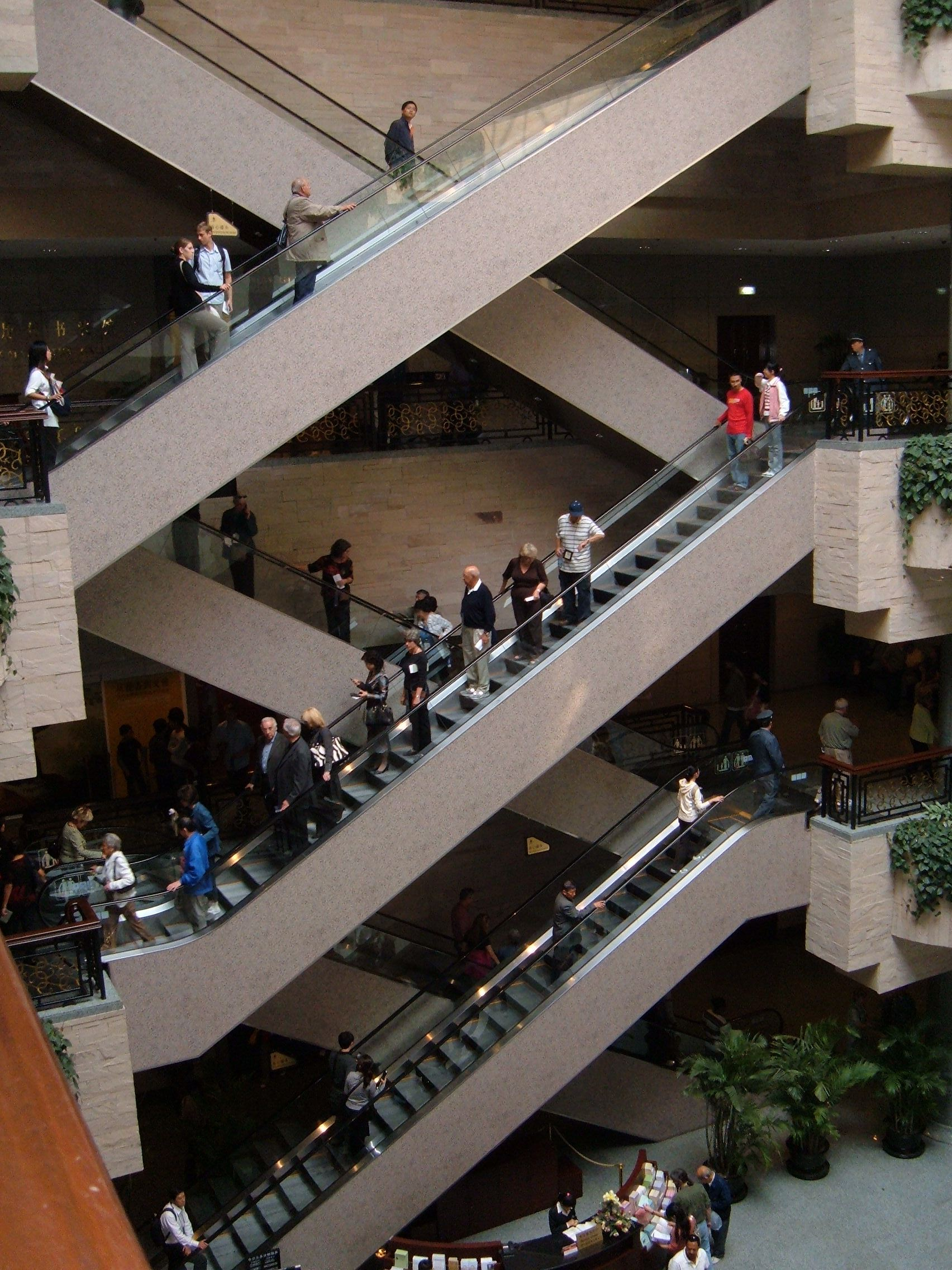 The flights of escalators at the Shanghai Museum in Shanghai, PRC.